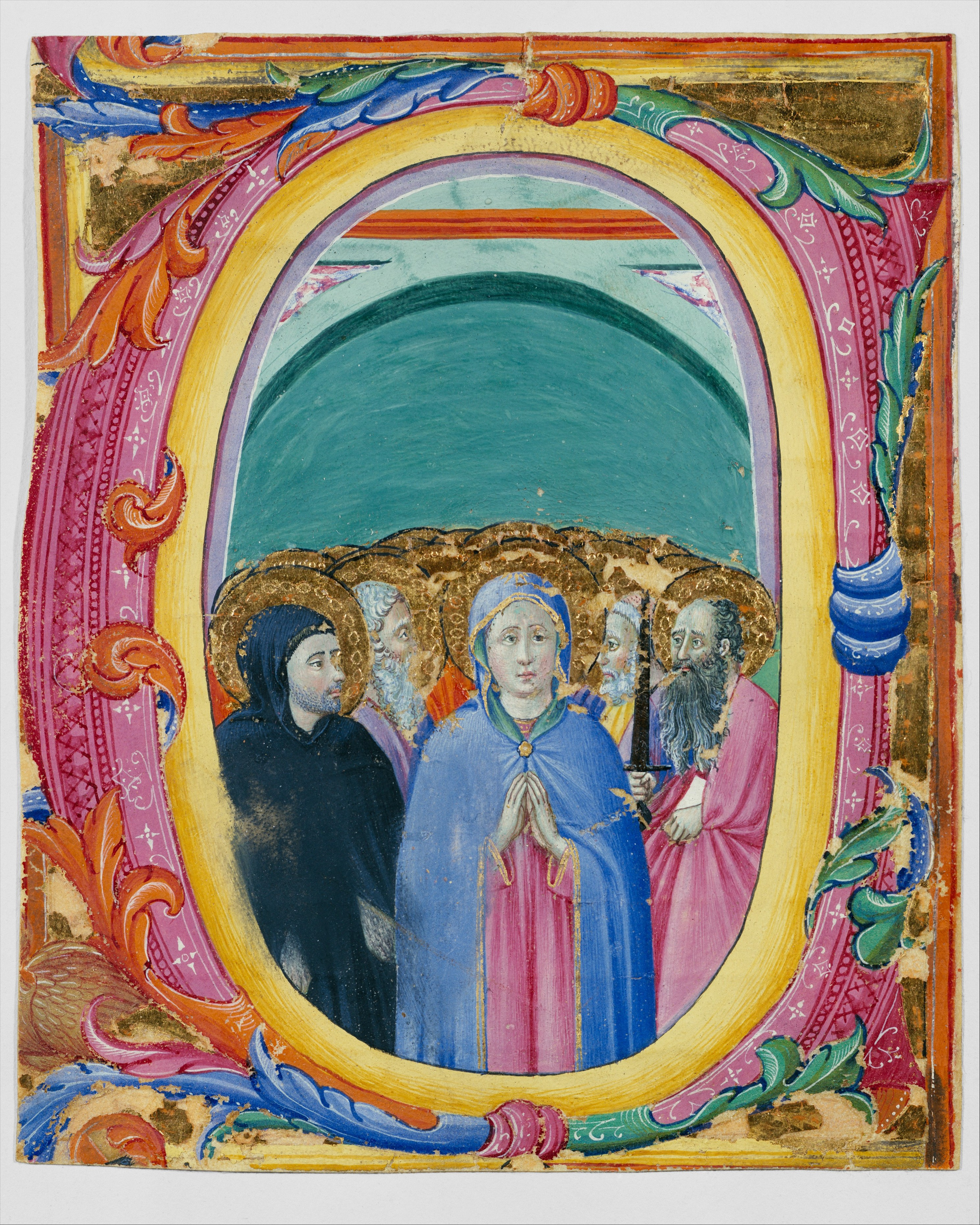 Osservanza Master. All Saints in an Initial E or O ca. 1430–40 Mteropolitan Museum NY The initial E introduces an antiphon for the Feast of all Saints (November 1): Exsultent justi in conspectu Dei ("Let the just exult before God")